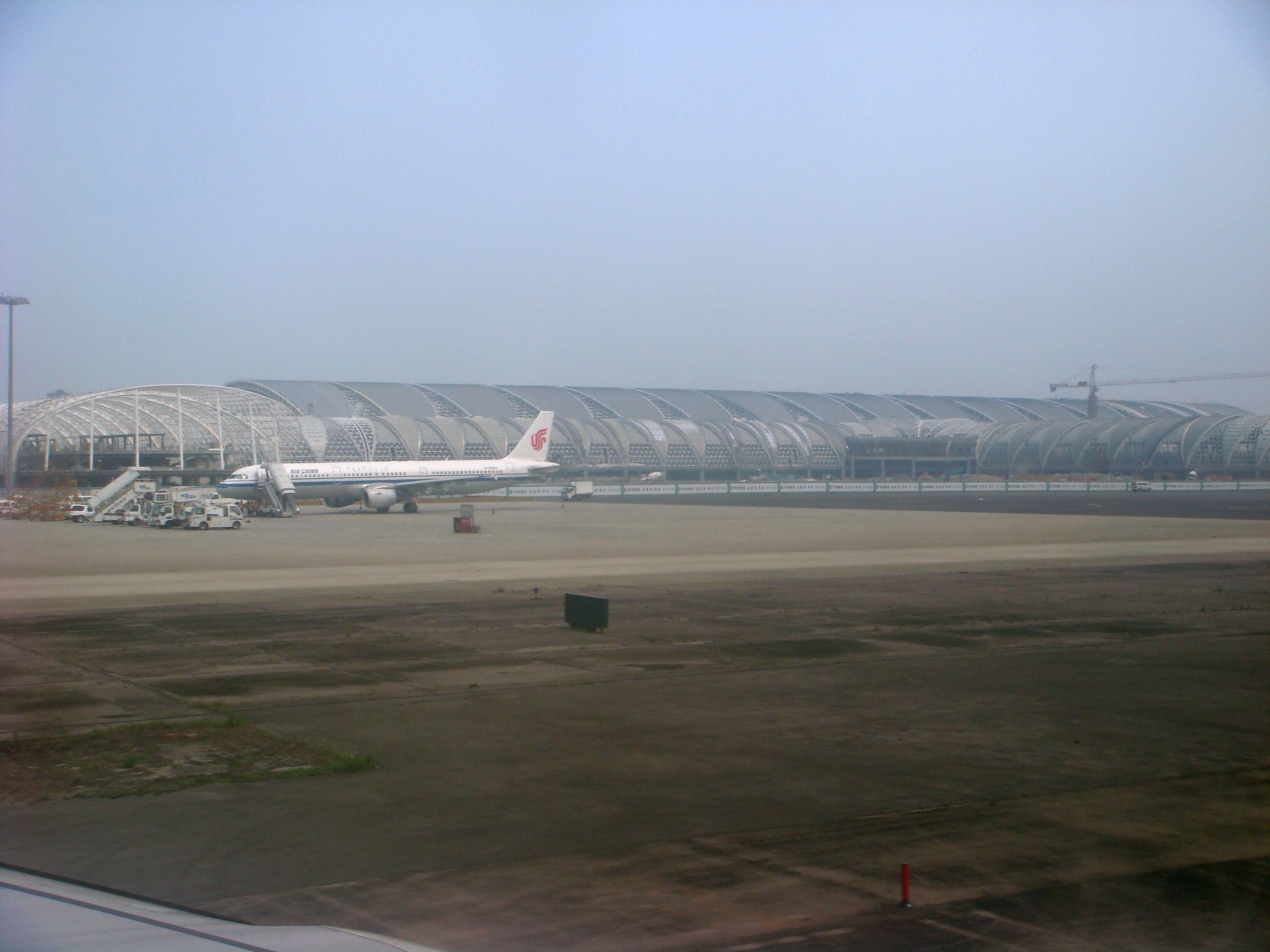 201107 B-6632 at CTU, with T2 under construction behind